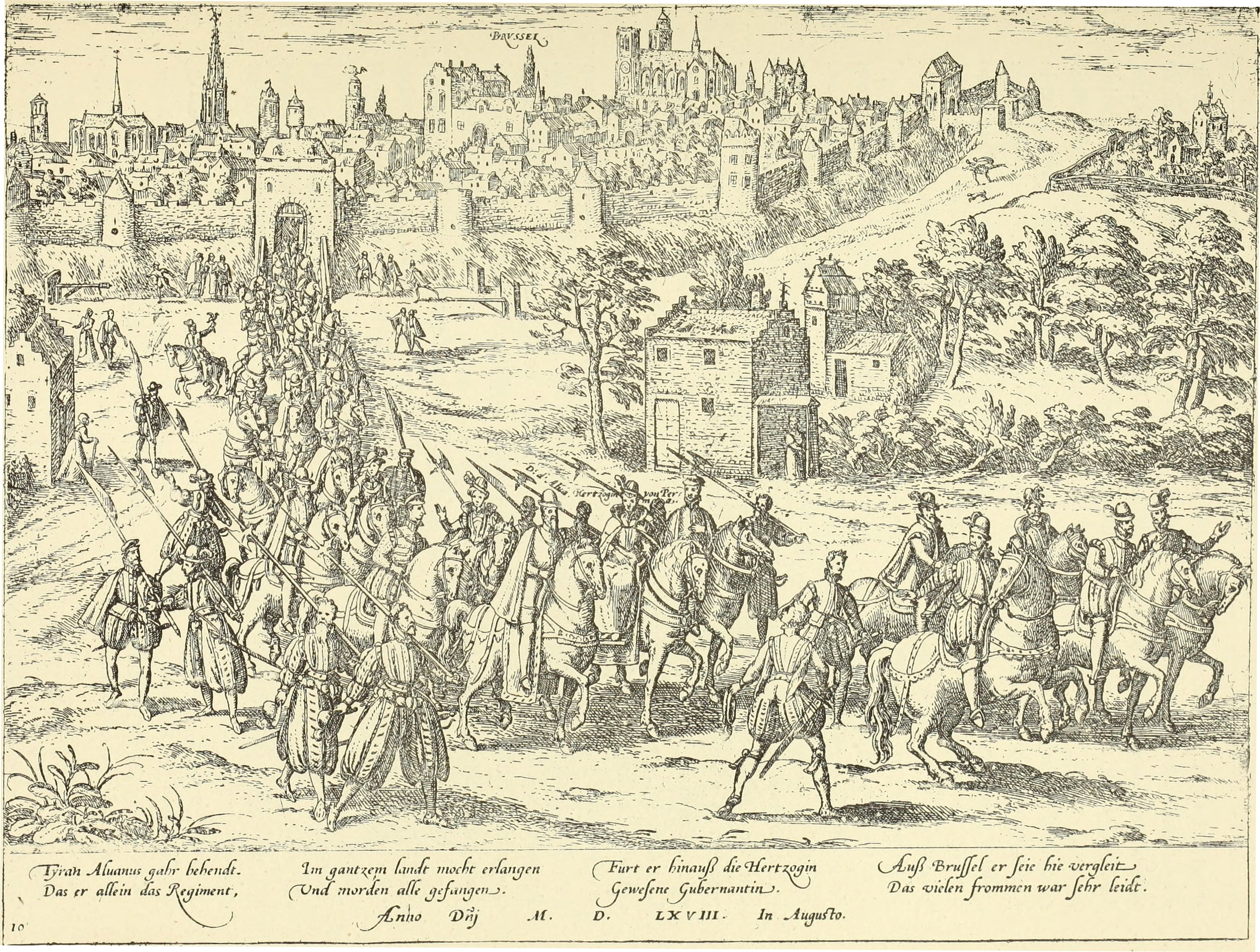 The Duke of Alba conducts Margaret of Parma out of Brussels (august 1568). Engraving by Frans Hogenberg, reproduced in "Bruxelles à travers les âges" (1884)